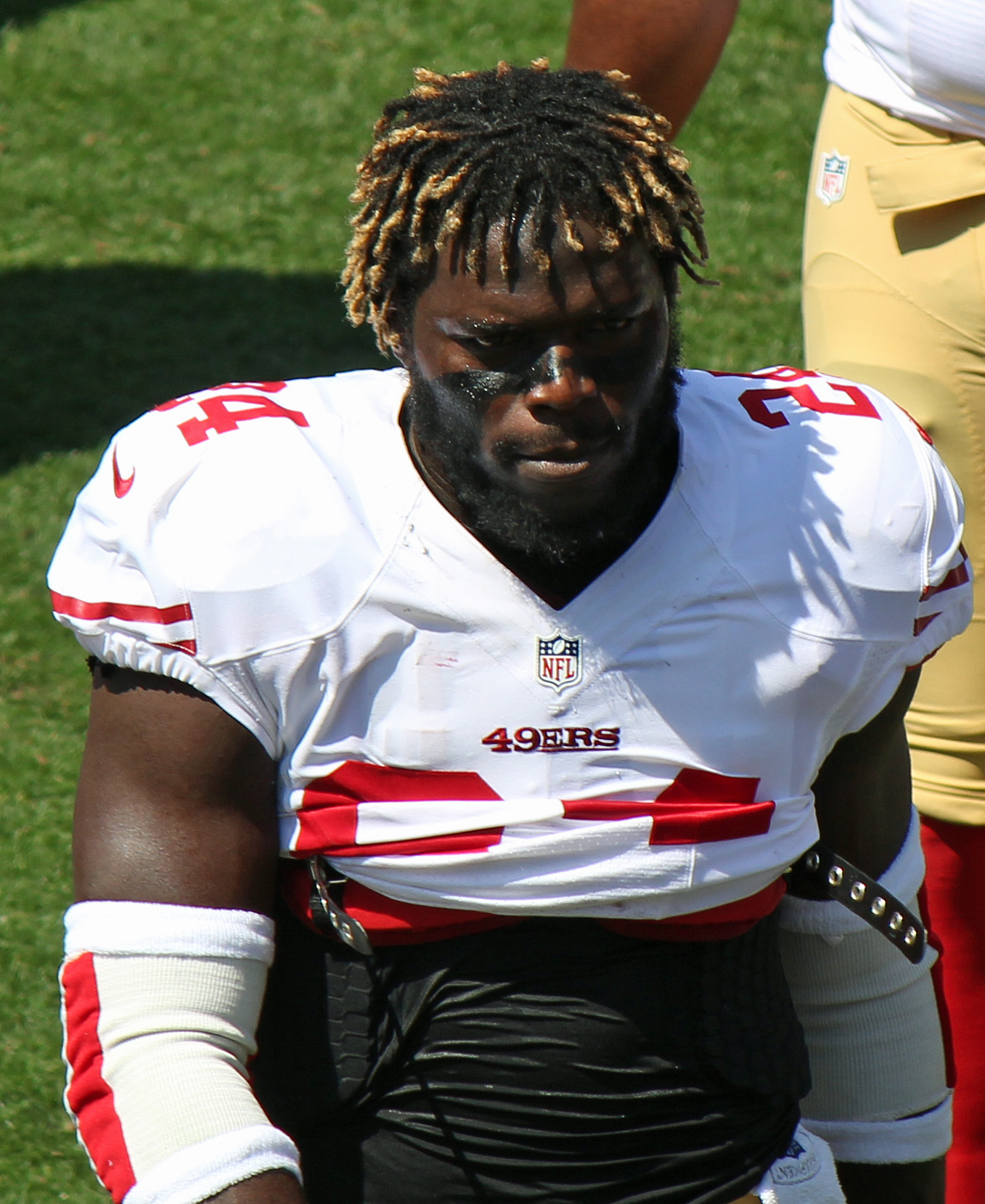 Anthony Dixon, a player on the National Football League.